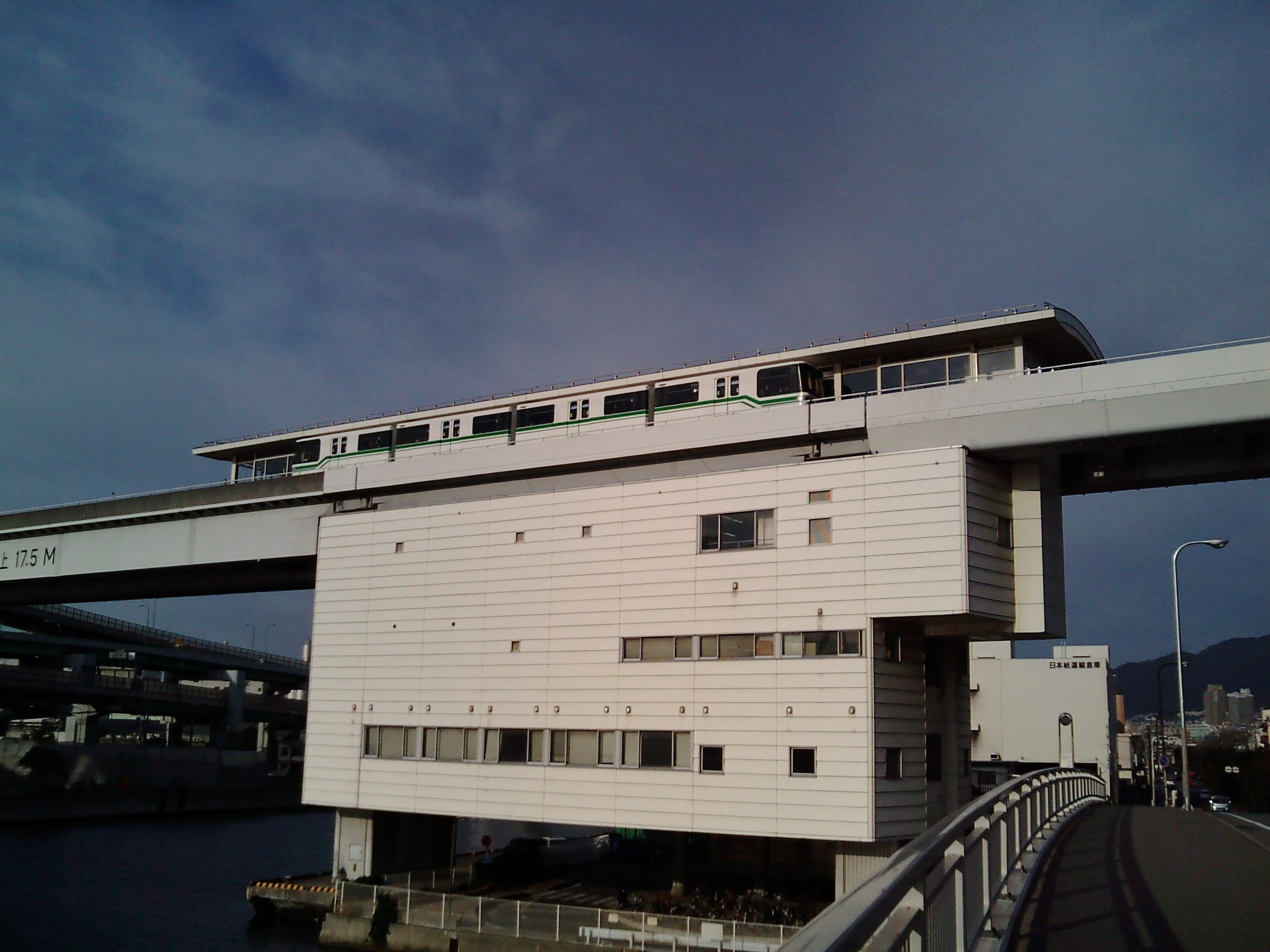 Minami Uozaki Station of Kobe New Transit Rokko Liner in Higashinada-ku, Kobe, Hyogo, Japan